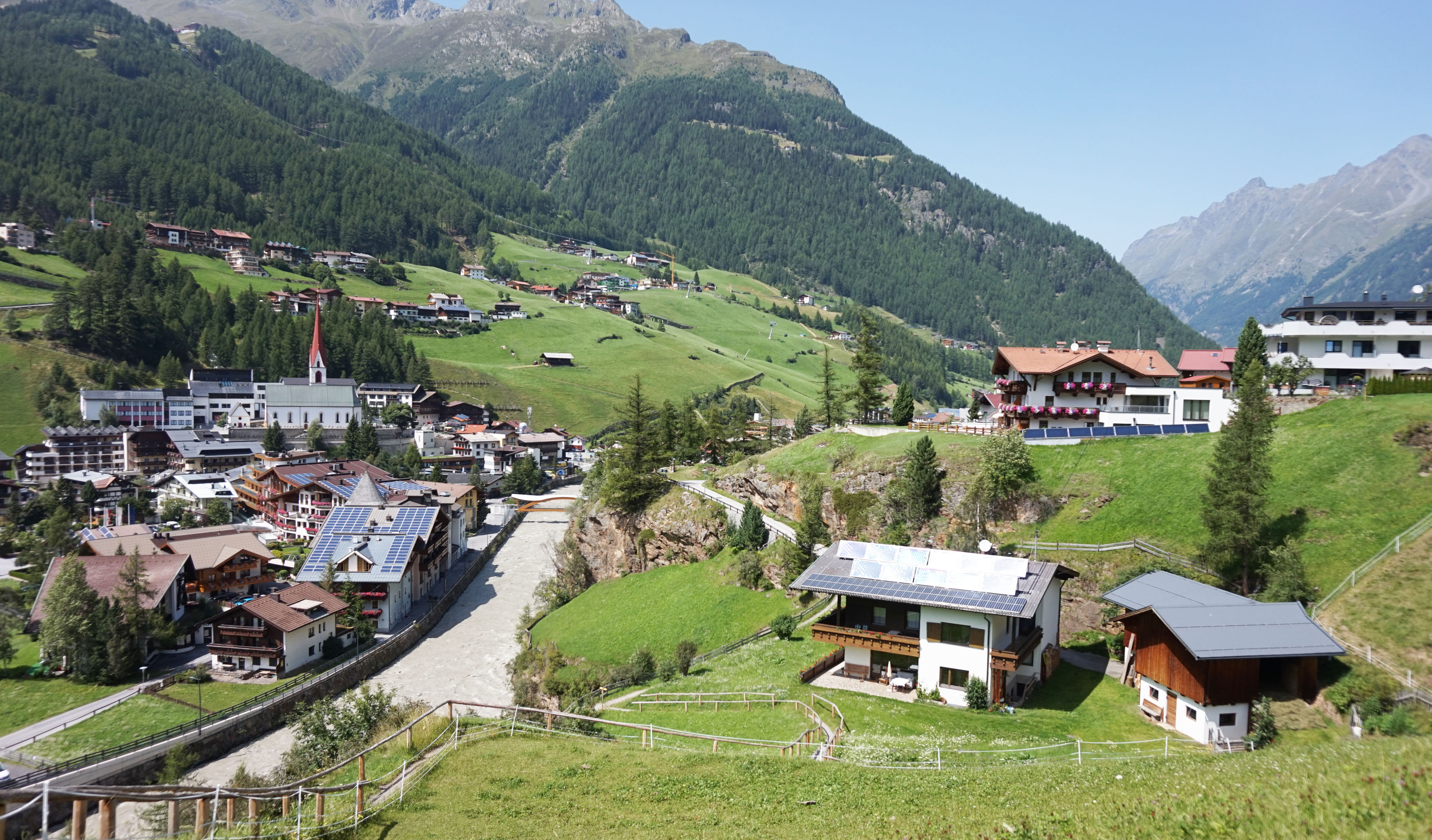 Sölden, Austria. This photograph was taken with a Sony Alpha a5000.